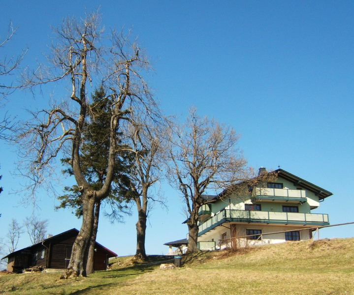 Charlottenhaus on the Dolmar, Thuringia, Germany